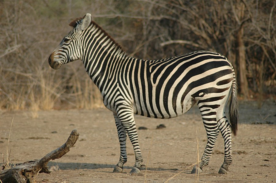 Crawshay's zebra, South Luangwa NP, Zambia -- by User:Jpatokal